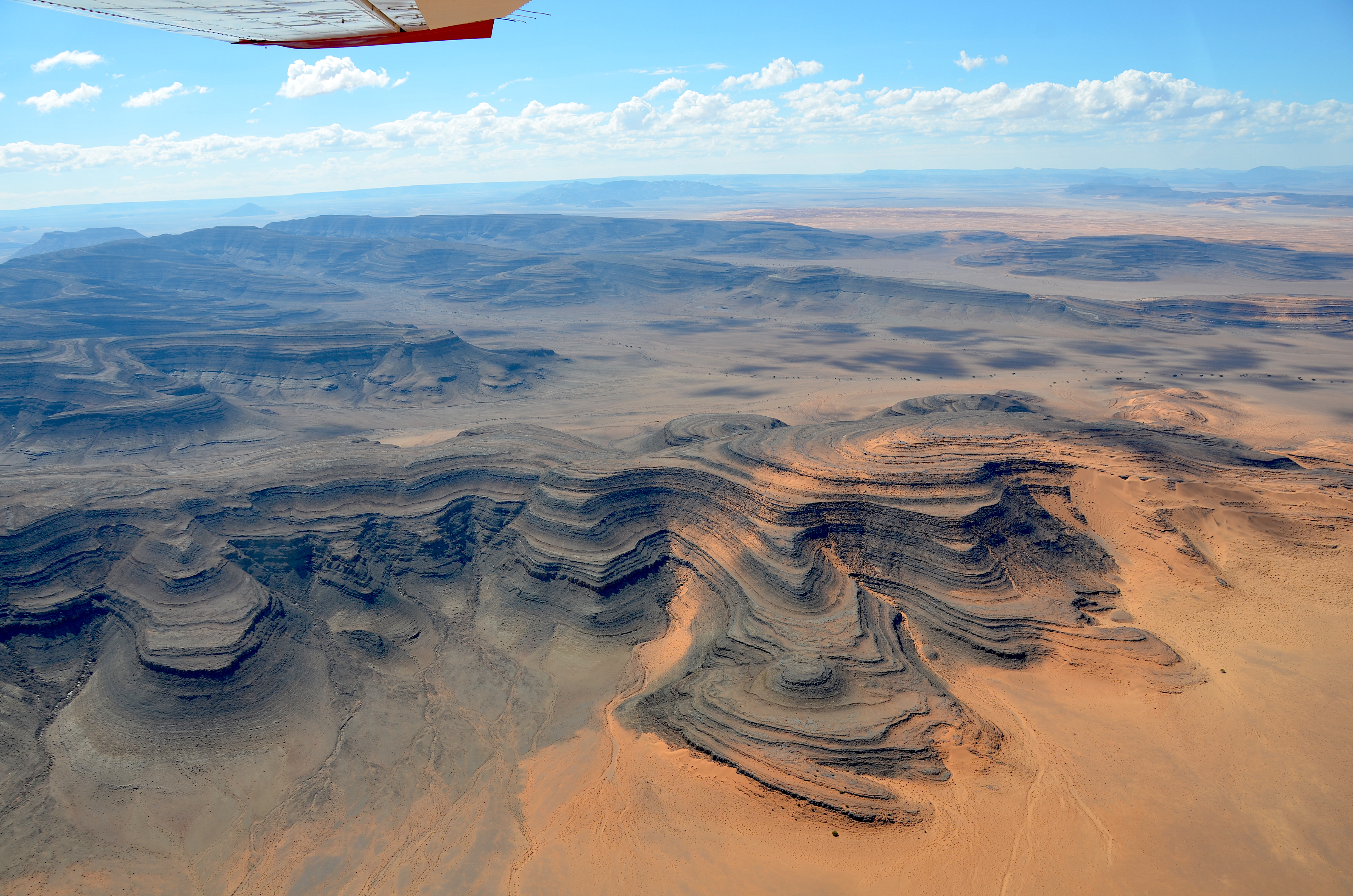 Sperrgebiet Namibia from Bird´s eye view (2017)